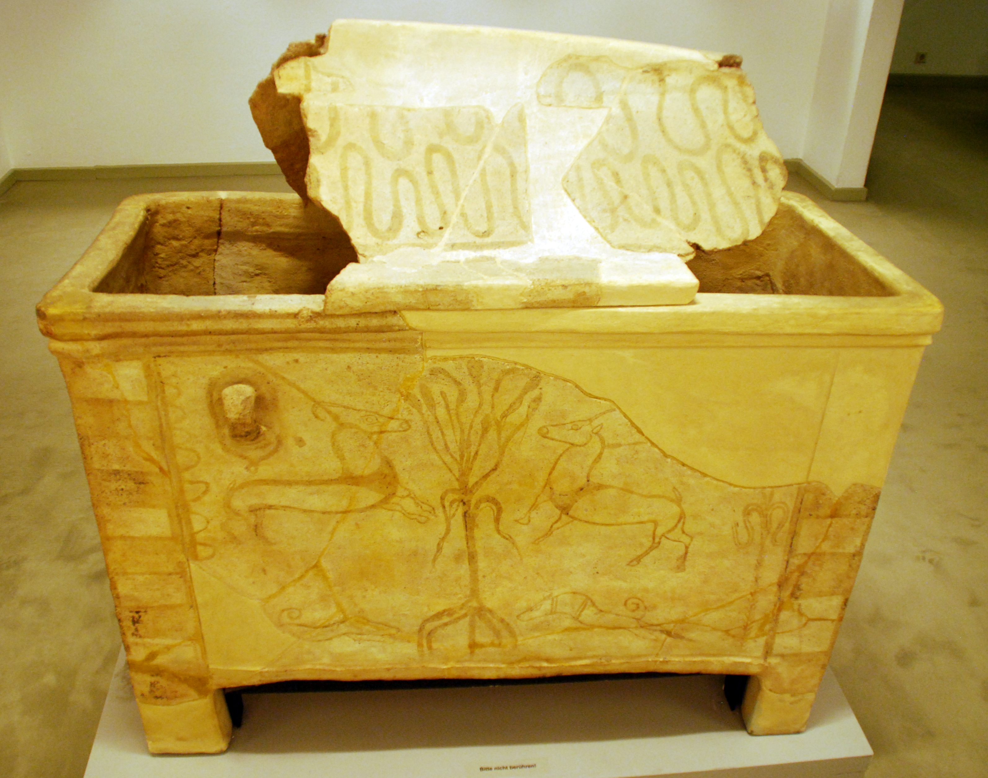 Late minoian Larnax; 14th Cent. B.C., sayd to be from Crete; today in the Museum August Kestner, Inv.-Nr. 1989.30